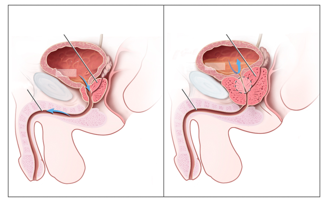 Two-panel drawing shows normal male reproductive and urinary anatomy and benign prostatic hyperplasia (BPH). Panel on the left shows the normal prostate and flow of urine from the bladder through the urethra. Panel on the right shows an enlarged prostate pressing on the bladder and urethra, blocking the flow of urine.